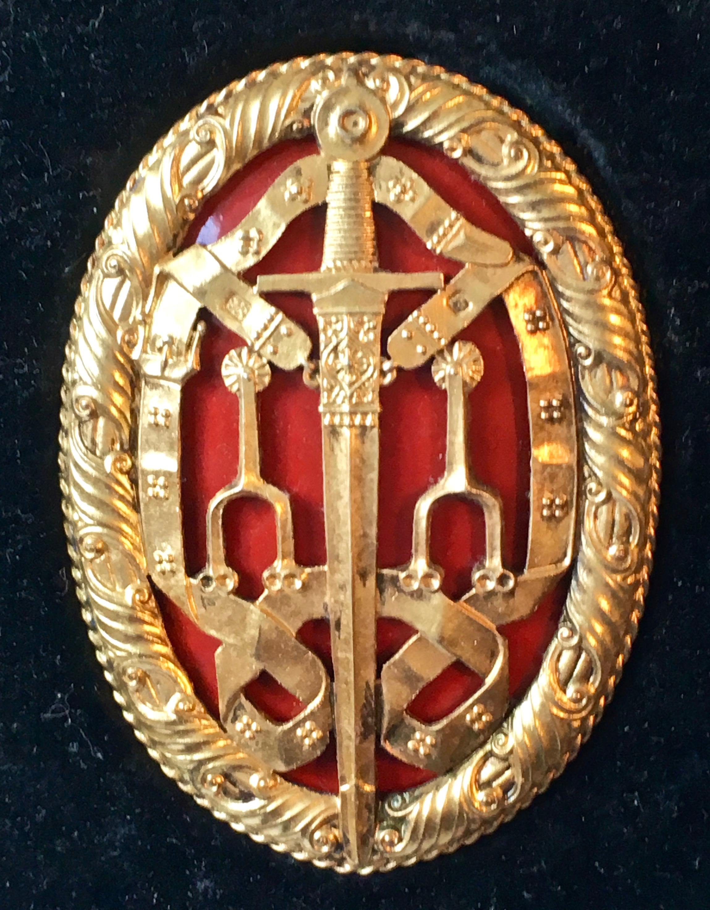 Photo of Sir Ivison Macadam's Knight Bachelor badge. He was knighted in 1955. Later also elevated to Knight Commander of the Royal Victorian Order in 1974, which is in the sole gift of the Monarch.